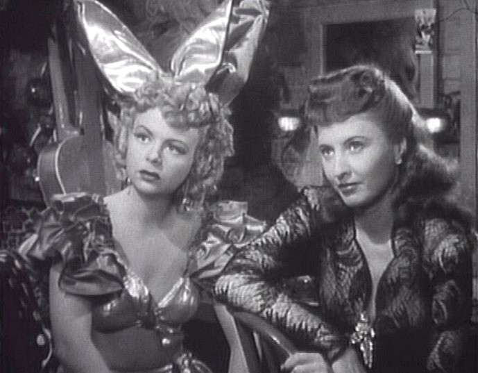 Cropped screenshot of Iris Adrian and Barbara Stanwyck from the film Lady of Burlesque.